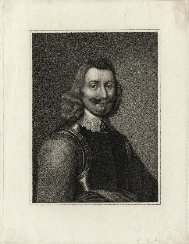 Philip Skippon, Sergeant-Major General of Foot in the service of Parliament during the English civil wars